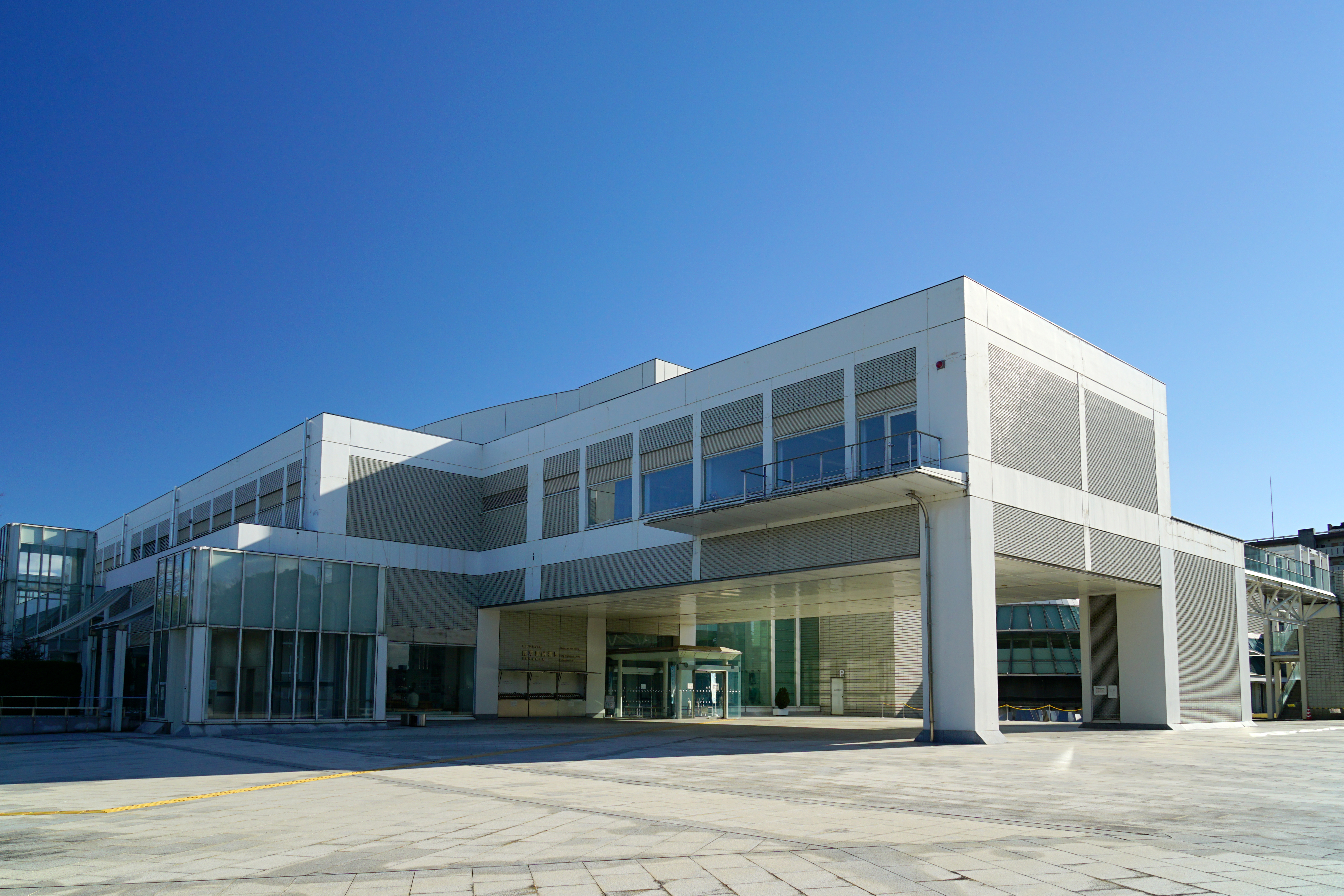 Gifu Prefectural Library in Gifu, Gifu prefecture, Japan